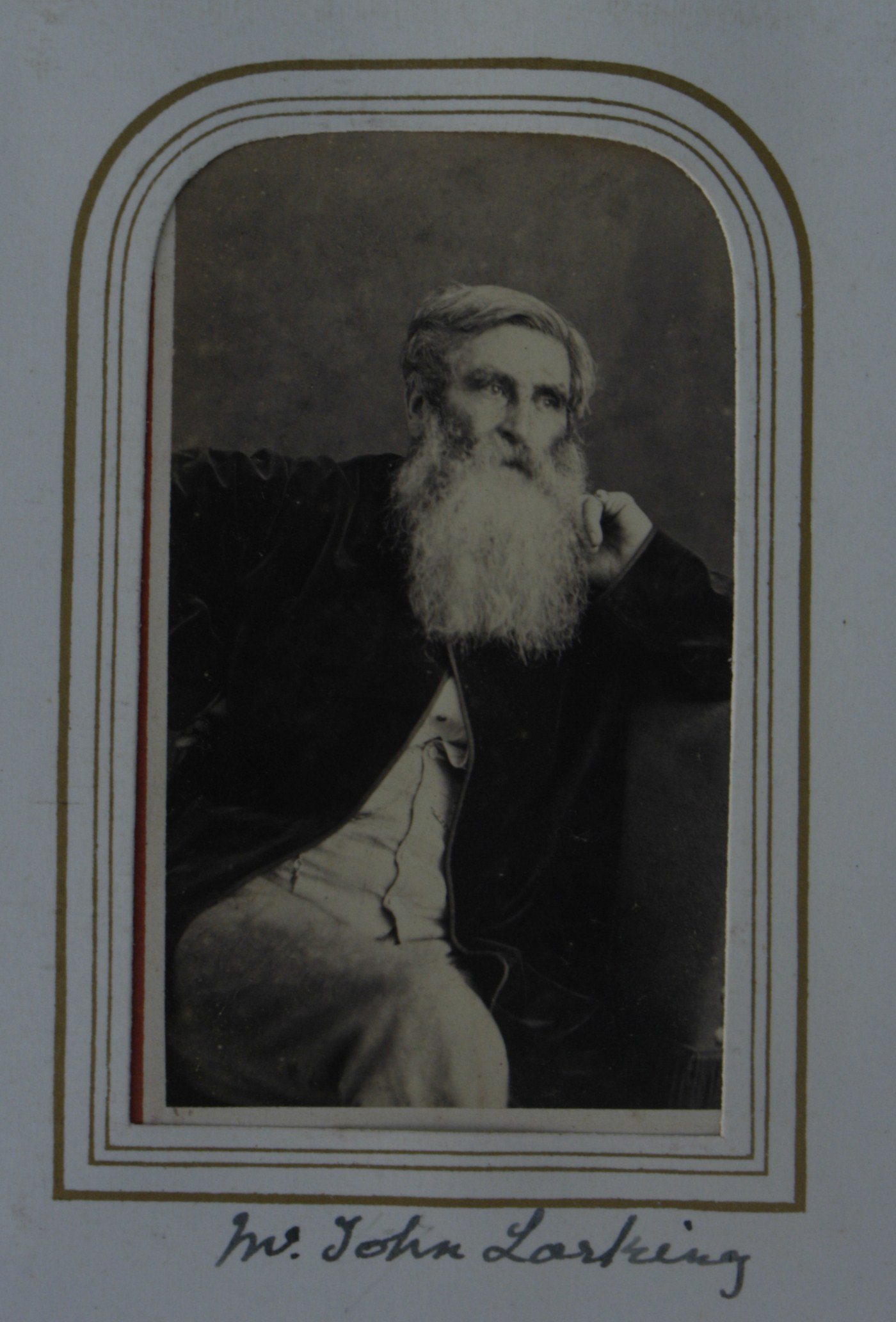 My photo (R. de SalisRodolph (talk) 00:48, 29 May 2014 (UTC)), of a Carte de visite of John Larking, of Clare House, East Malling, Kent. I'm not sure which John Larking. Other information John Larking, of Clare House, East Malling, Kent.